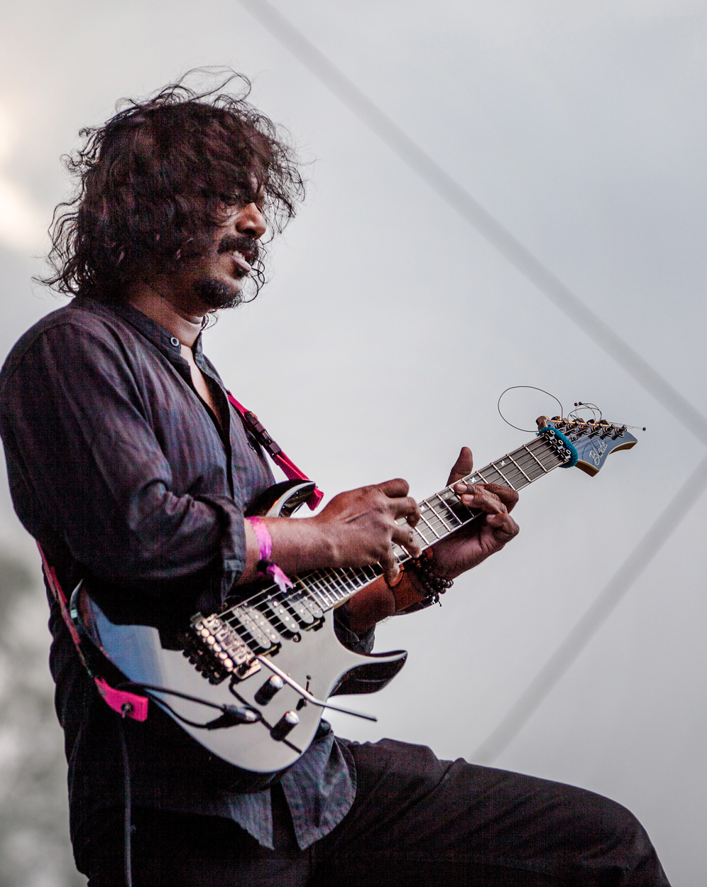 Baiju Dharmajan during NH7 Weekender Bangalore, 2013